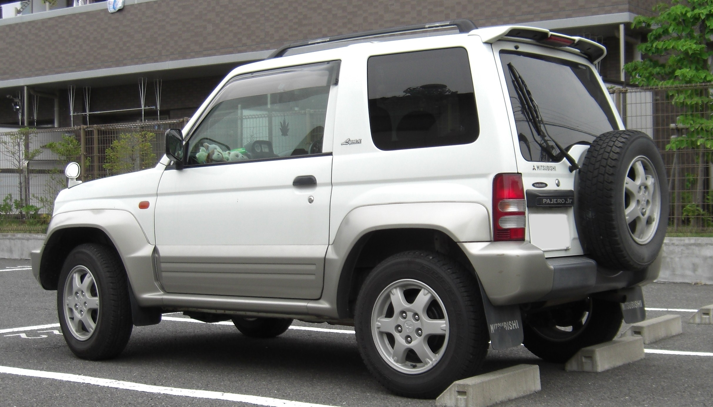 Mitsubishi Pajero Jr